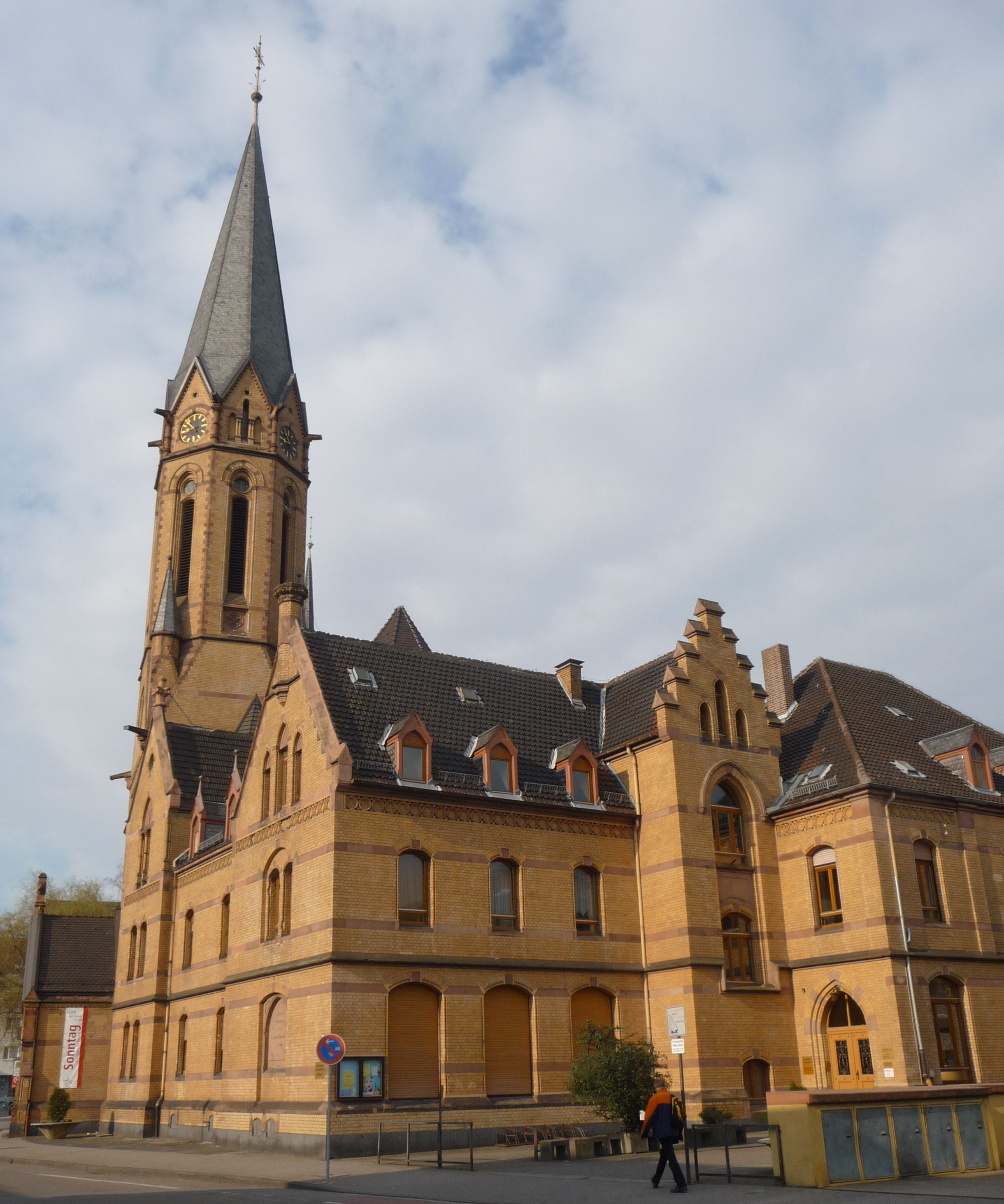 Church in Ludwigshafen, Germany